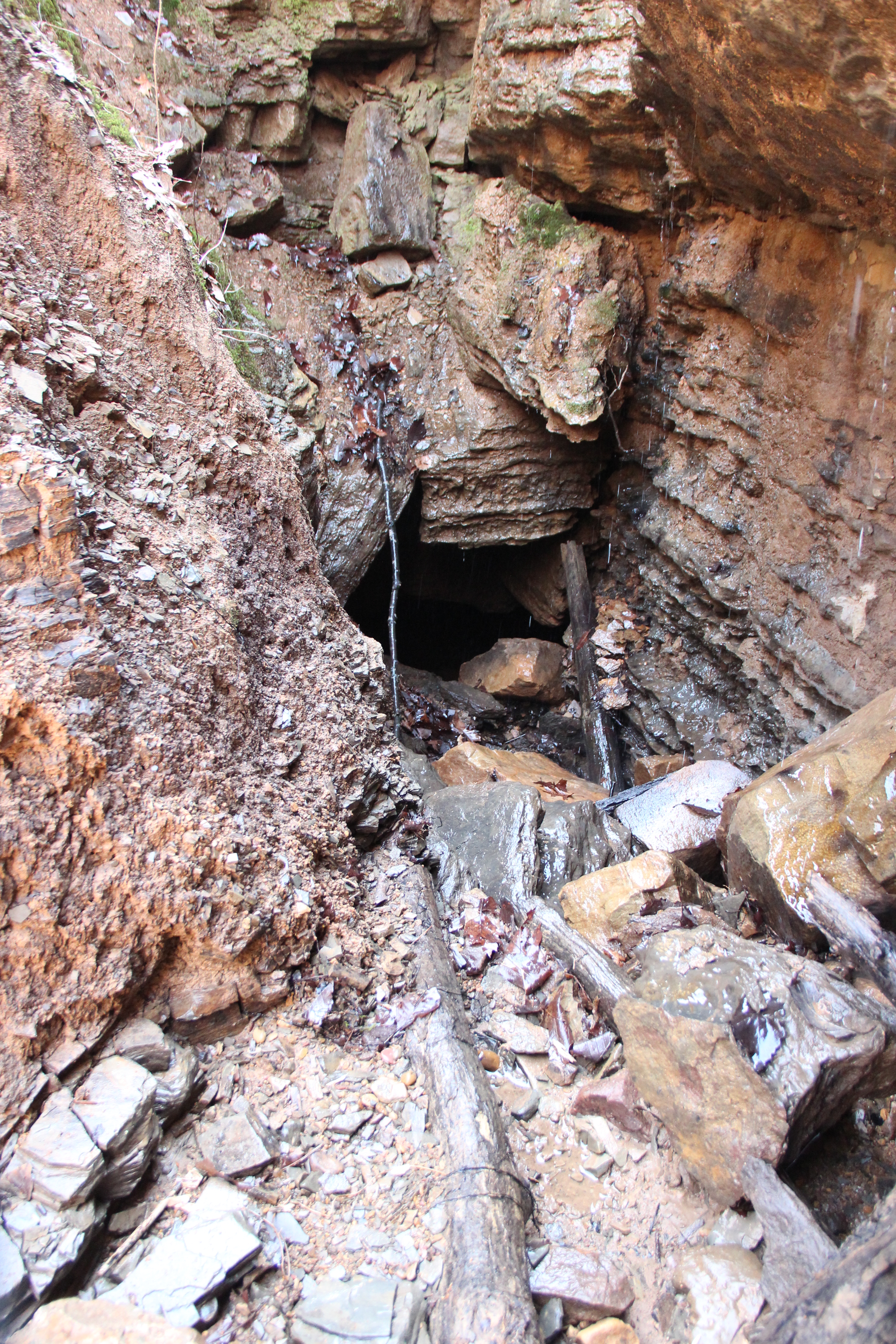 Dug Entrance to Ellison's Cave